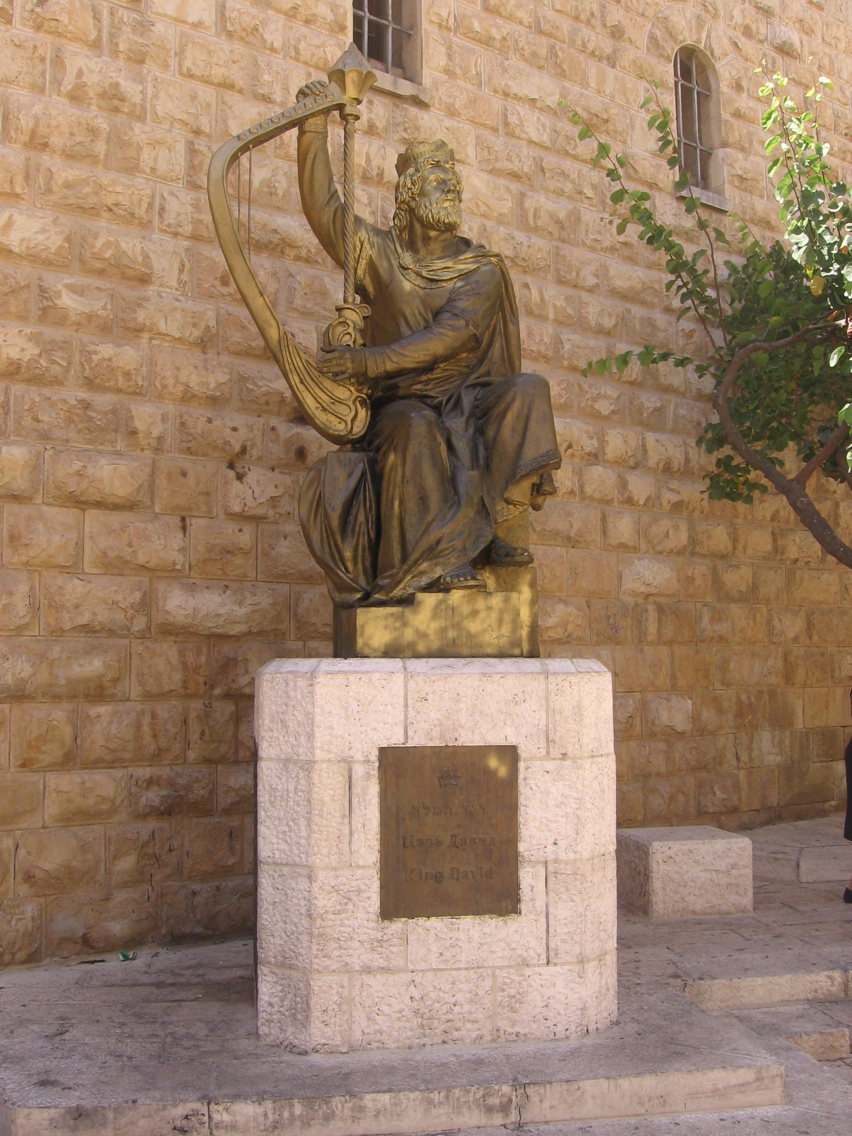 A statue of David outside his tomb. Haredim want King David statue moved